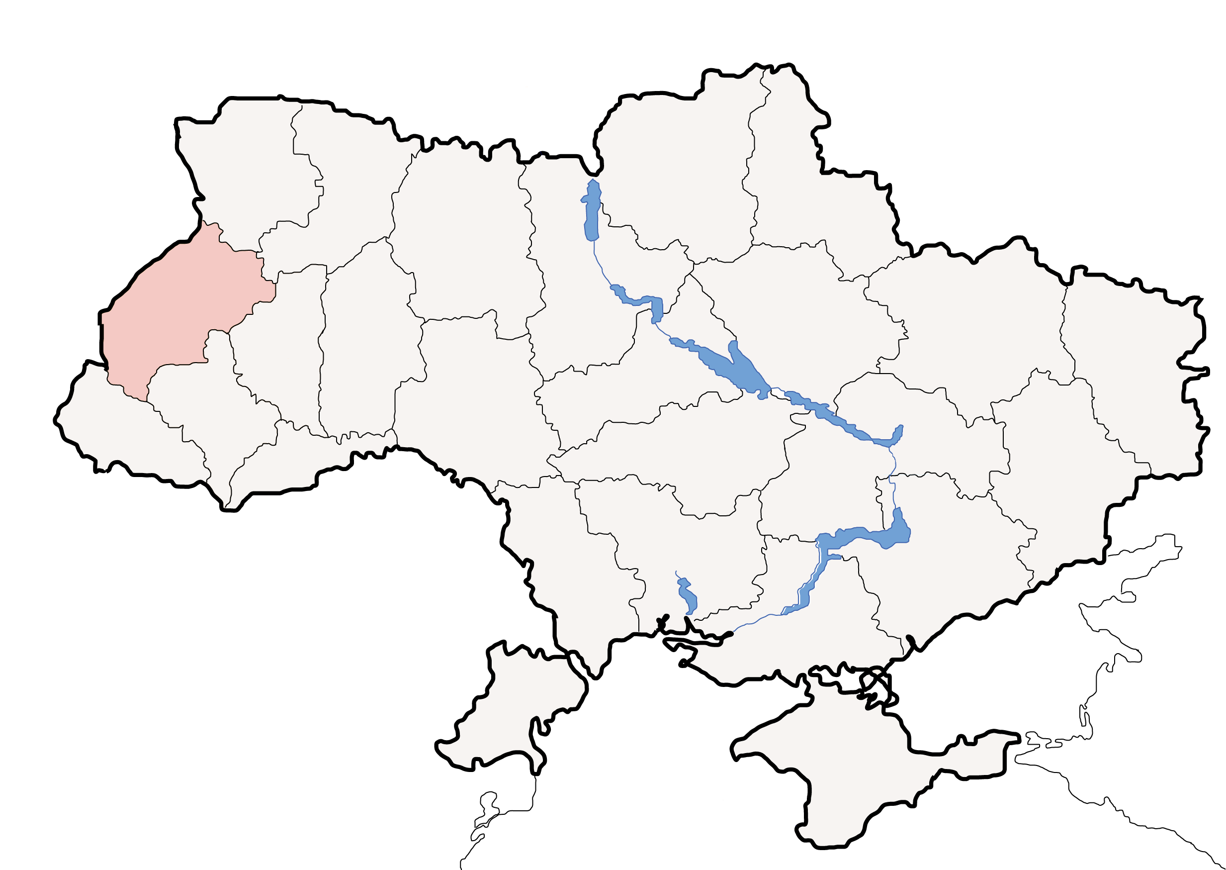 Political map of Ukraine, highlighting Lviv Oblast